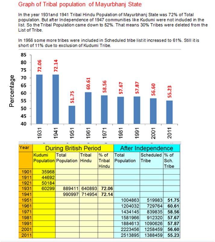 Tribal Population of Mayurbhanj State